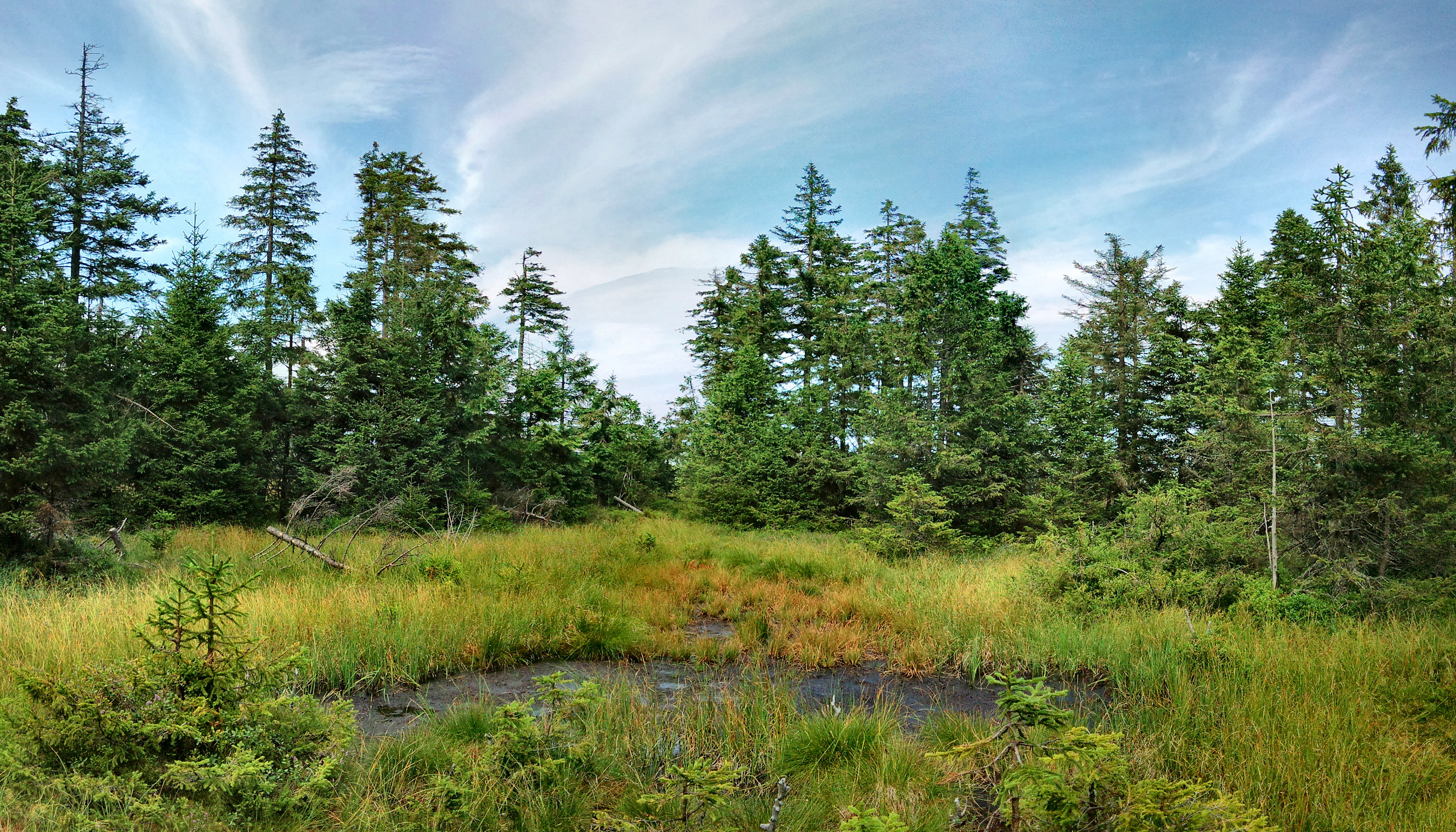 Summit of Smrk in Rychleby Mountains.